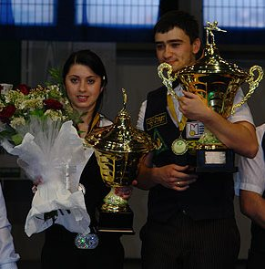 Чемпионы Евпропы по русскому бильярду в 2008 году - Алена Афанасьева и Юрий Пащинский.